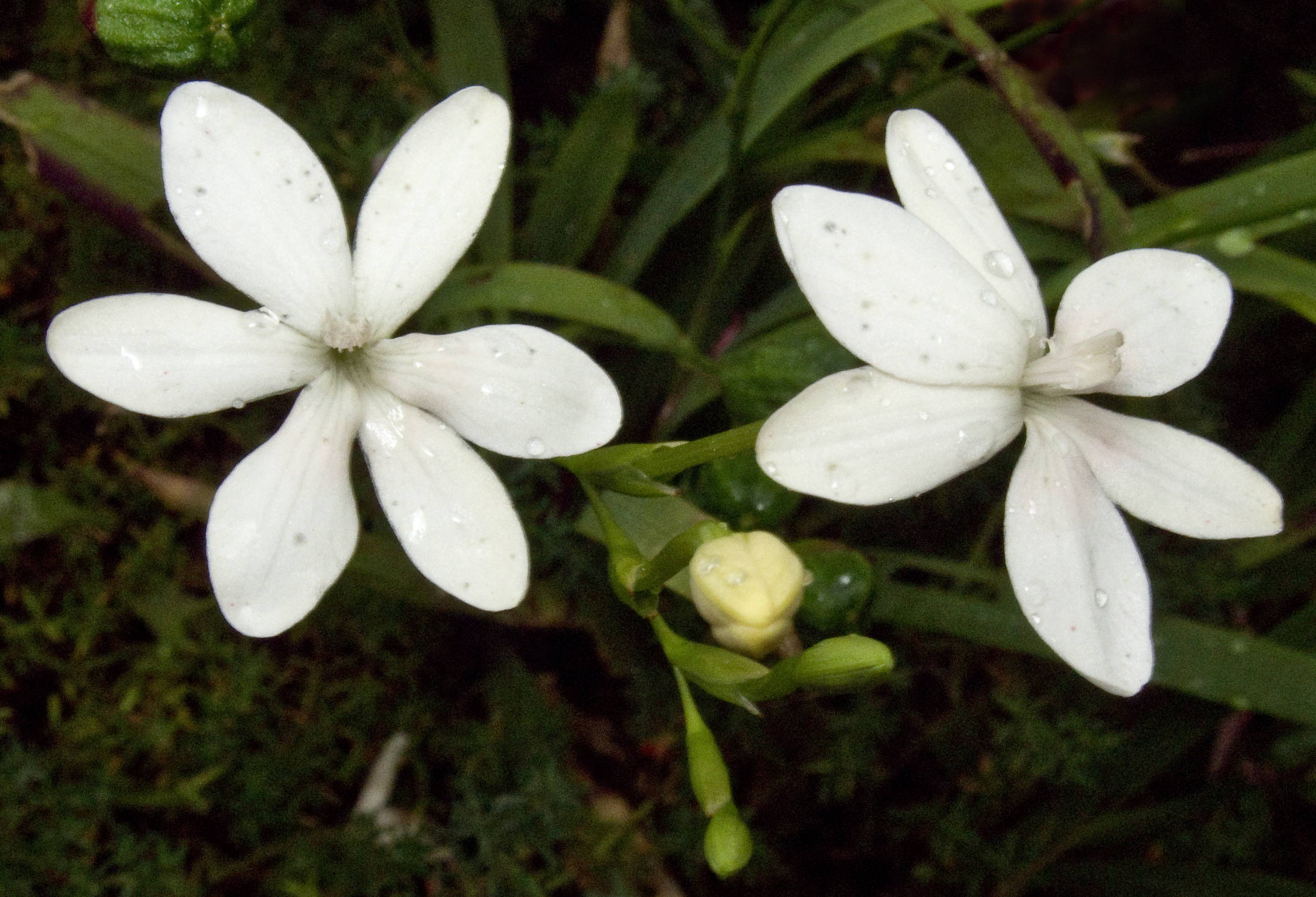 White form of Freesia laxa, in cultivation outside in the English Midlands. A faint pinkish marking is visible where other forms have darker blotches.